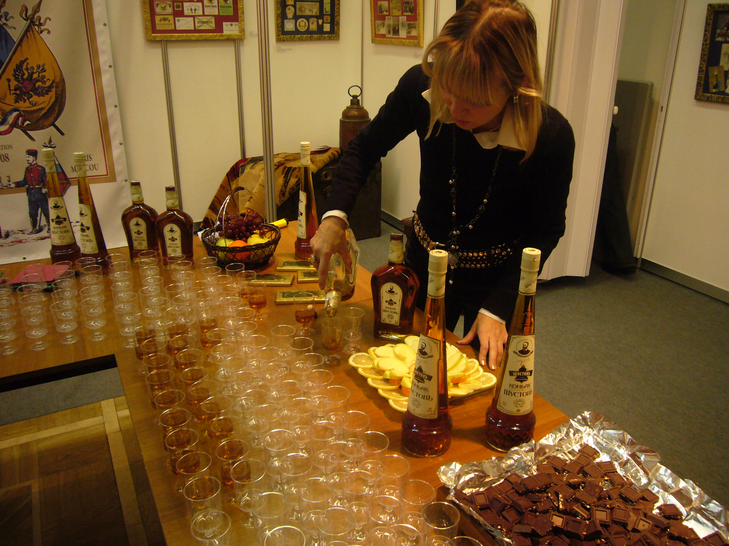 Postcards exhibition PostCardExpo 2008, January 24-27, 2008, Moscow. A Shustov cognac tasting at the stand of the National Museum of Russian Vodka.